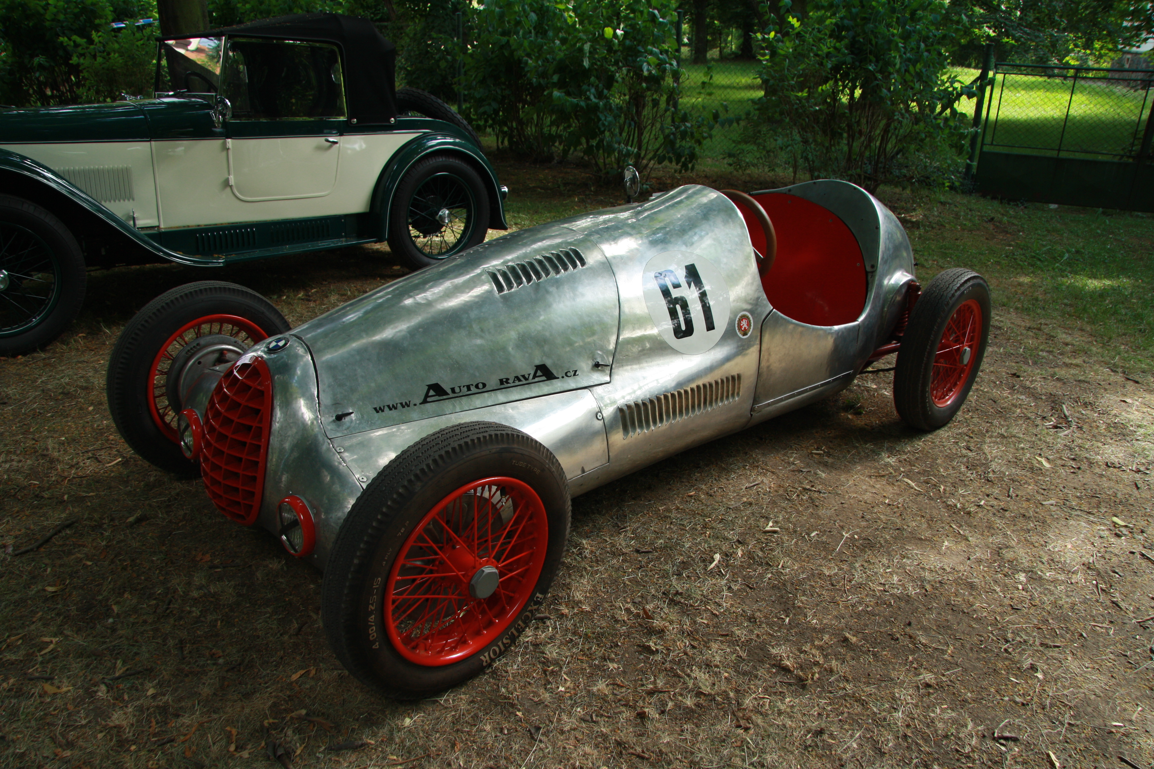 BMW 328 sports car at Legendy 2014.